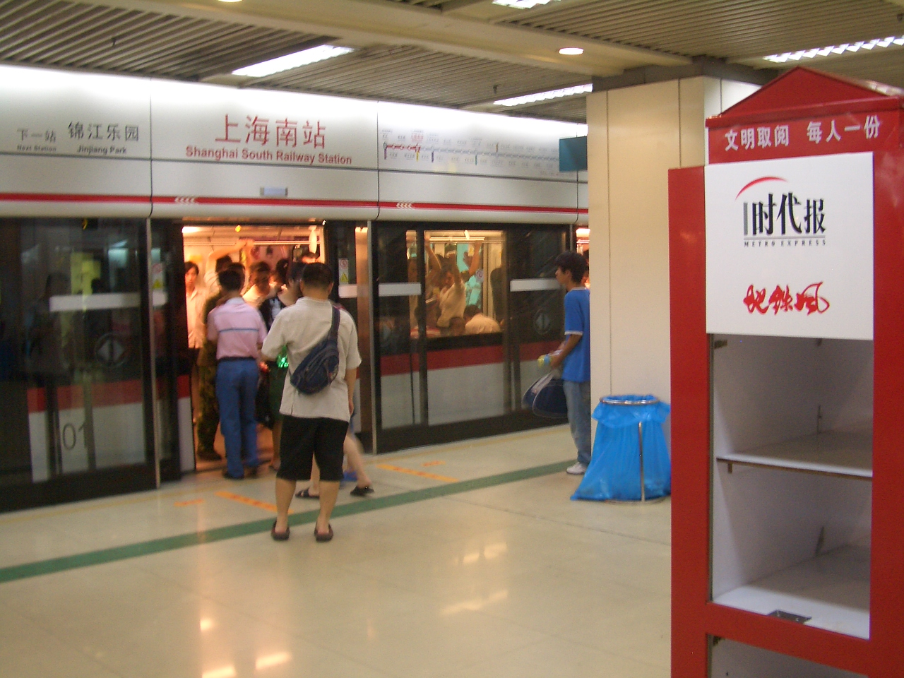 Shanghai Metro: on the platform of Shanghai Nan Zhan ("Shanghai South Railway Station") Station.